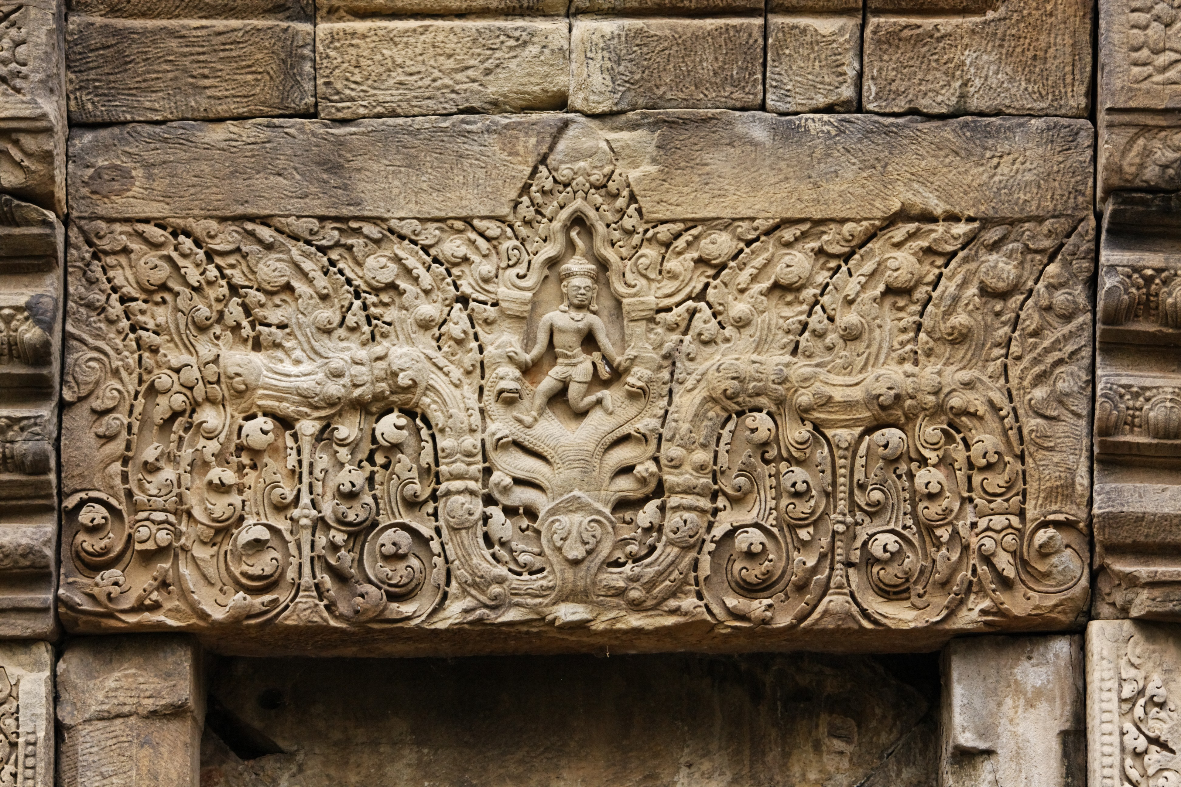 Prasat Ban Phluang, Thailand